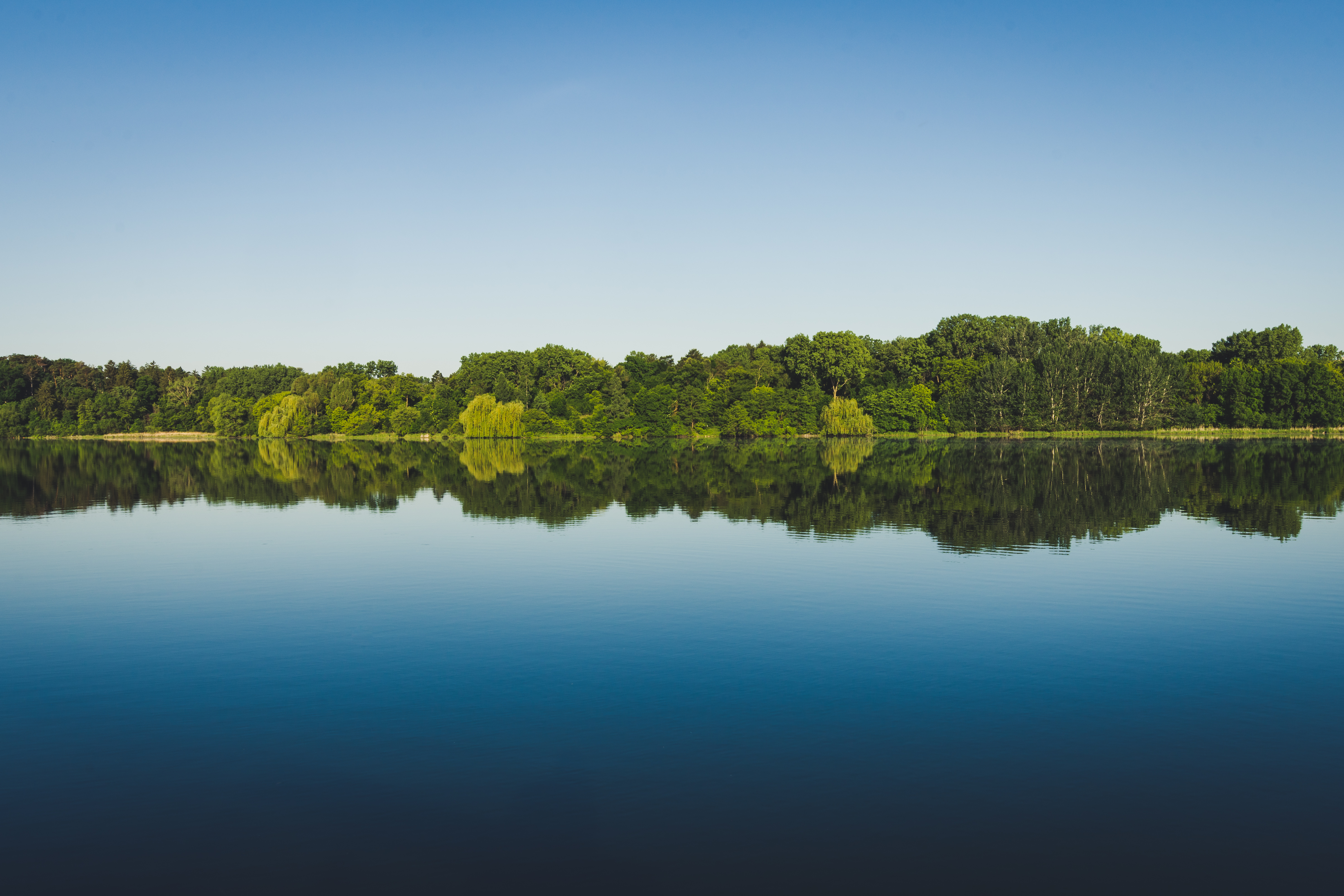 Clear blue skies over Wirth Lake in the summer.